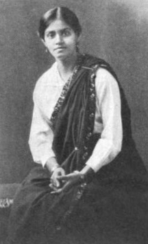 A young Indian woman wearing a dark sari over a white blouse; seated, hands folded in her lap. Her hair is parted center and dressed back behind her ears.